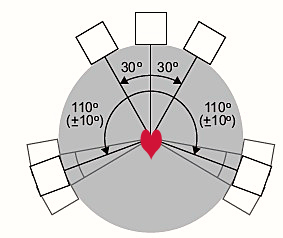 Audio Sweet spot